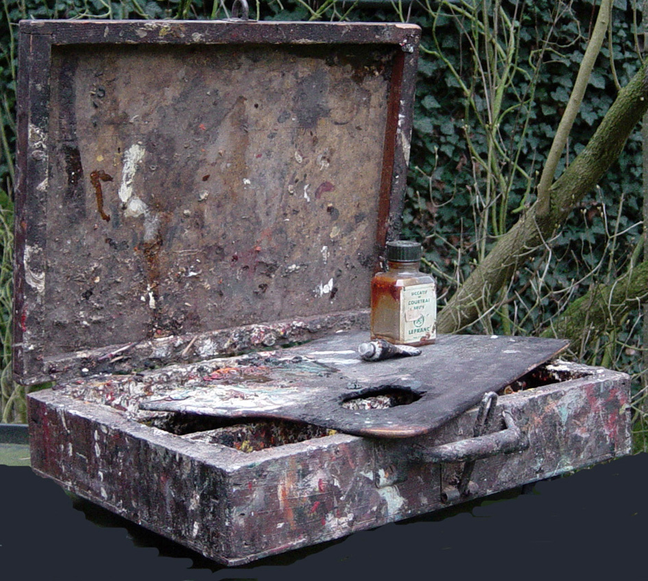 Painter’s equipment used by Dutch painter nl: Jacques van Mourik